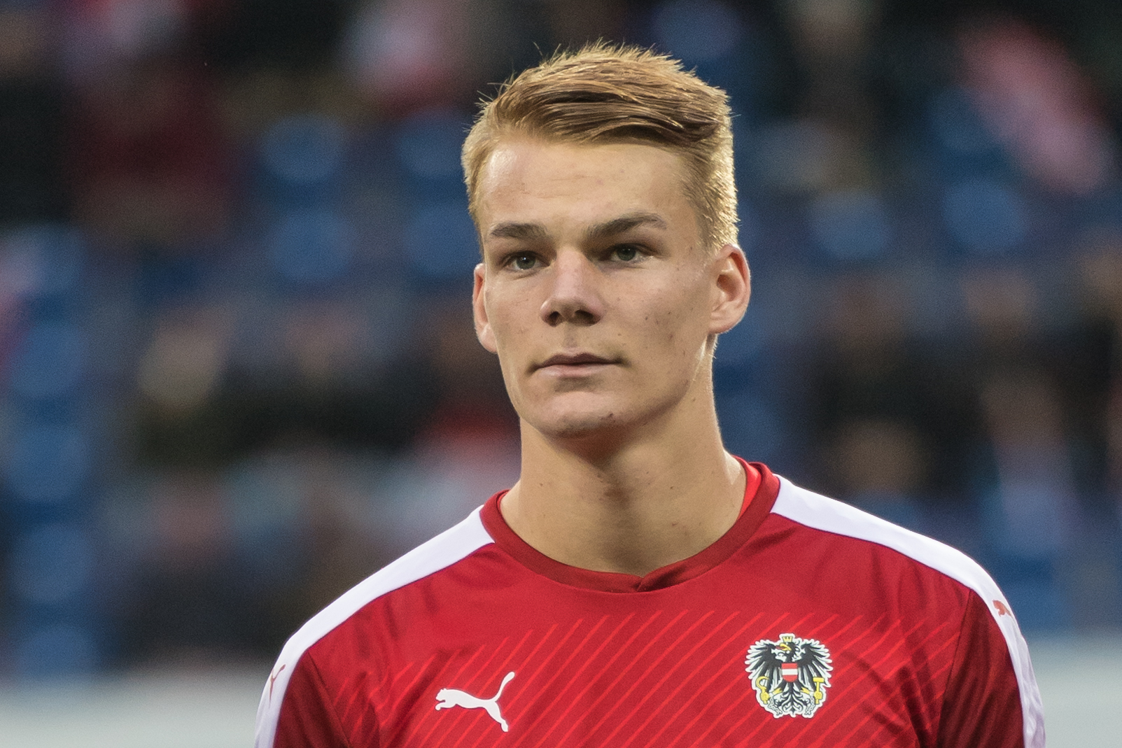 European Under-21 Championship 2017 Qualifying Round, Austria vs Germany, 11/10/2016, St. Polten